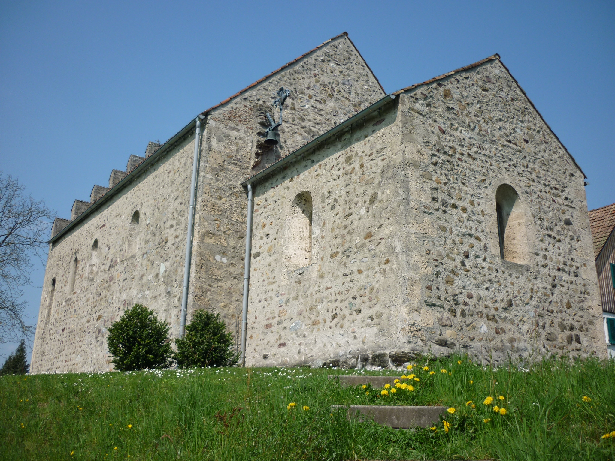 Gfenn, Dübendorf ZH, Switzerland